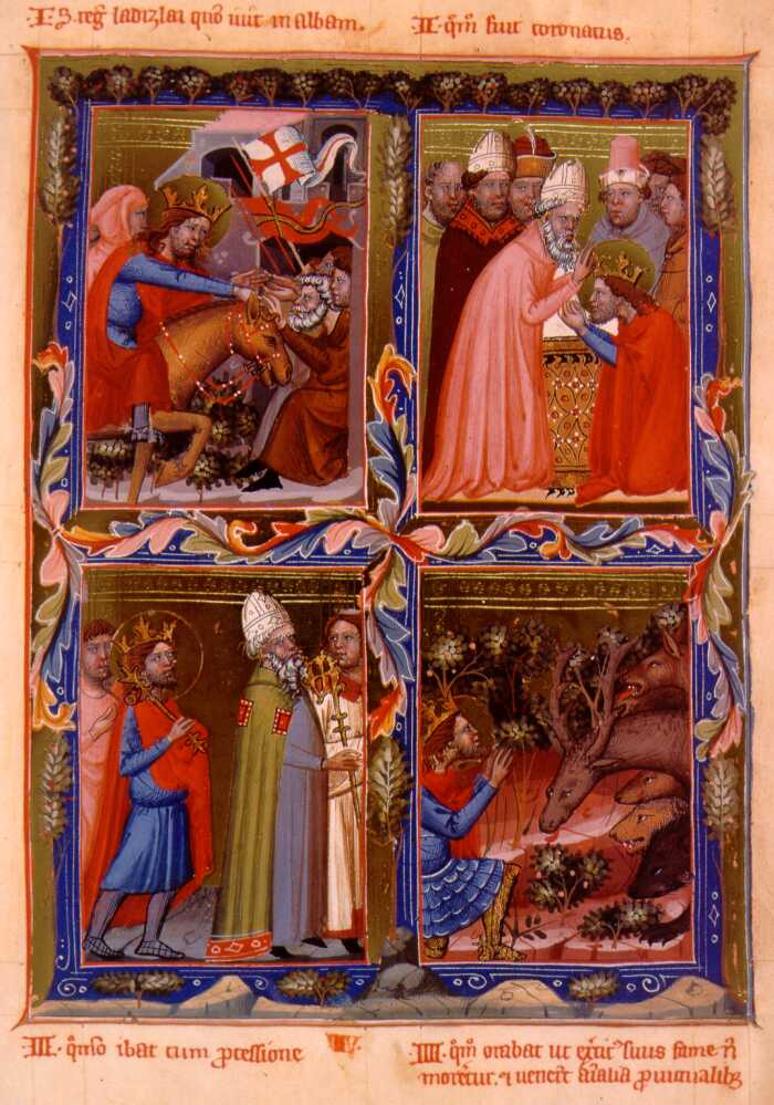 Anjou Legendarium